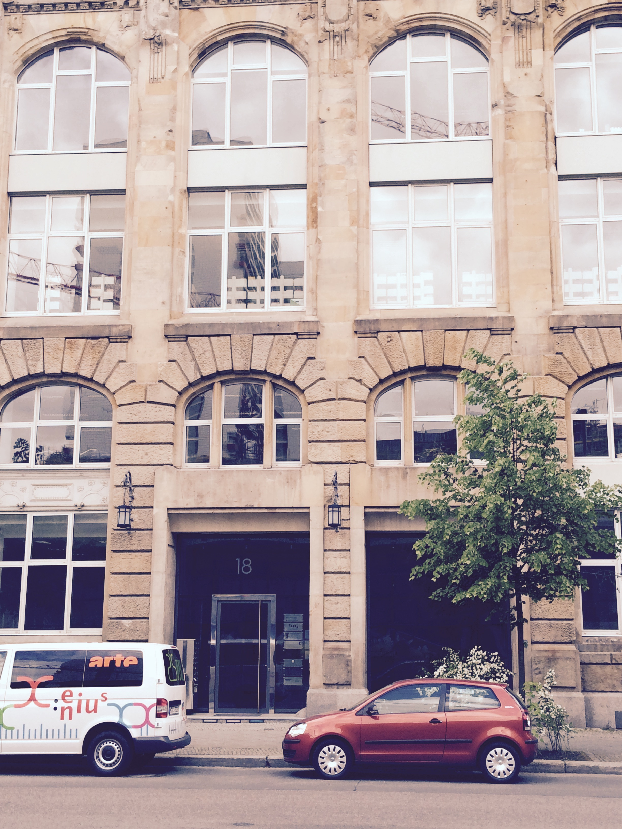 Sight of the new International Walter Benjamin Society, Schützenstraße No 18, Berlin 2015